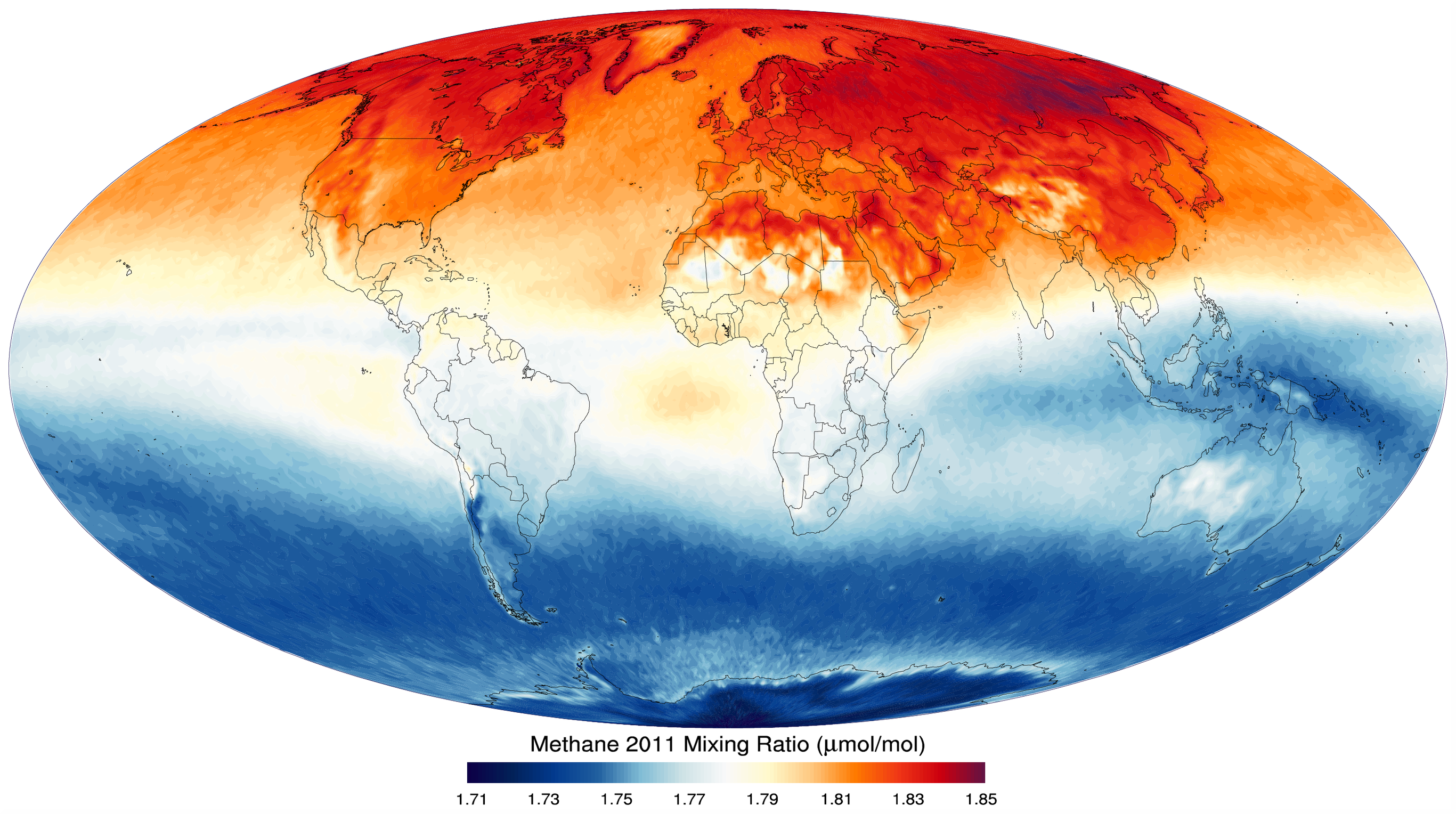 AIRS 2011 annual mean upper troposphere(359Hpa) methane mixing ratio. Data The volume mixing ratio is the ratio of the number density of the gas to the total number density of the atmosphere (density is the number of molecules per unit volume) (source , Goddard Space Flight Center)